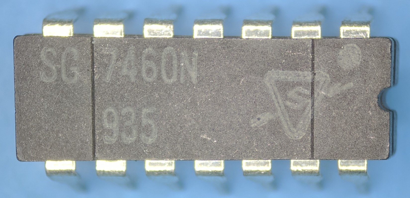 Package top of a Sylvania 7460 chip, datecode 935.